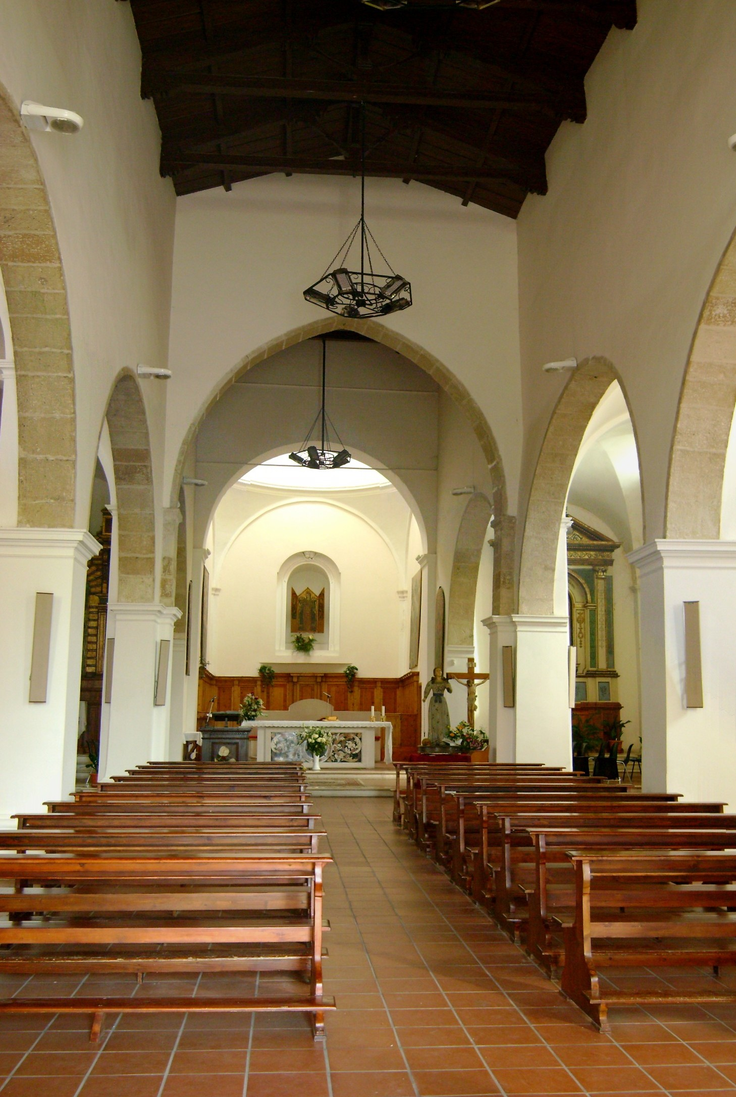 The right side of the church of Our Lady of Recommended, Gessopalena, province of Chieti, Abruzzo